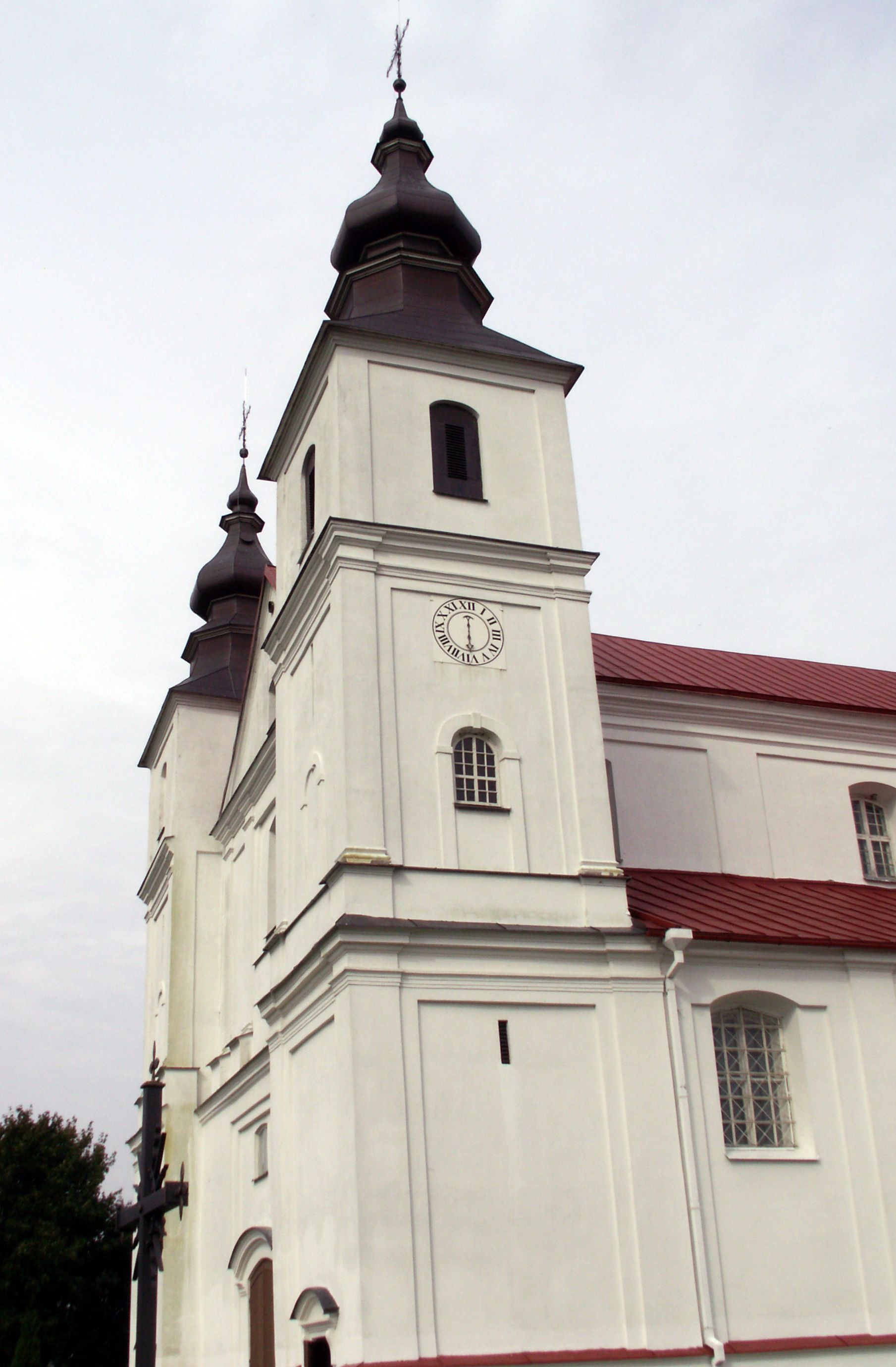 Varniai church, Lithuania